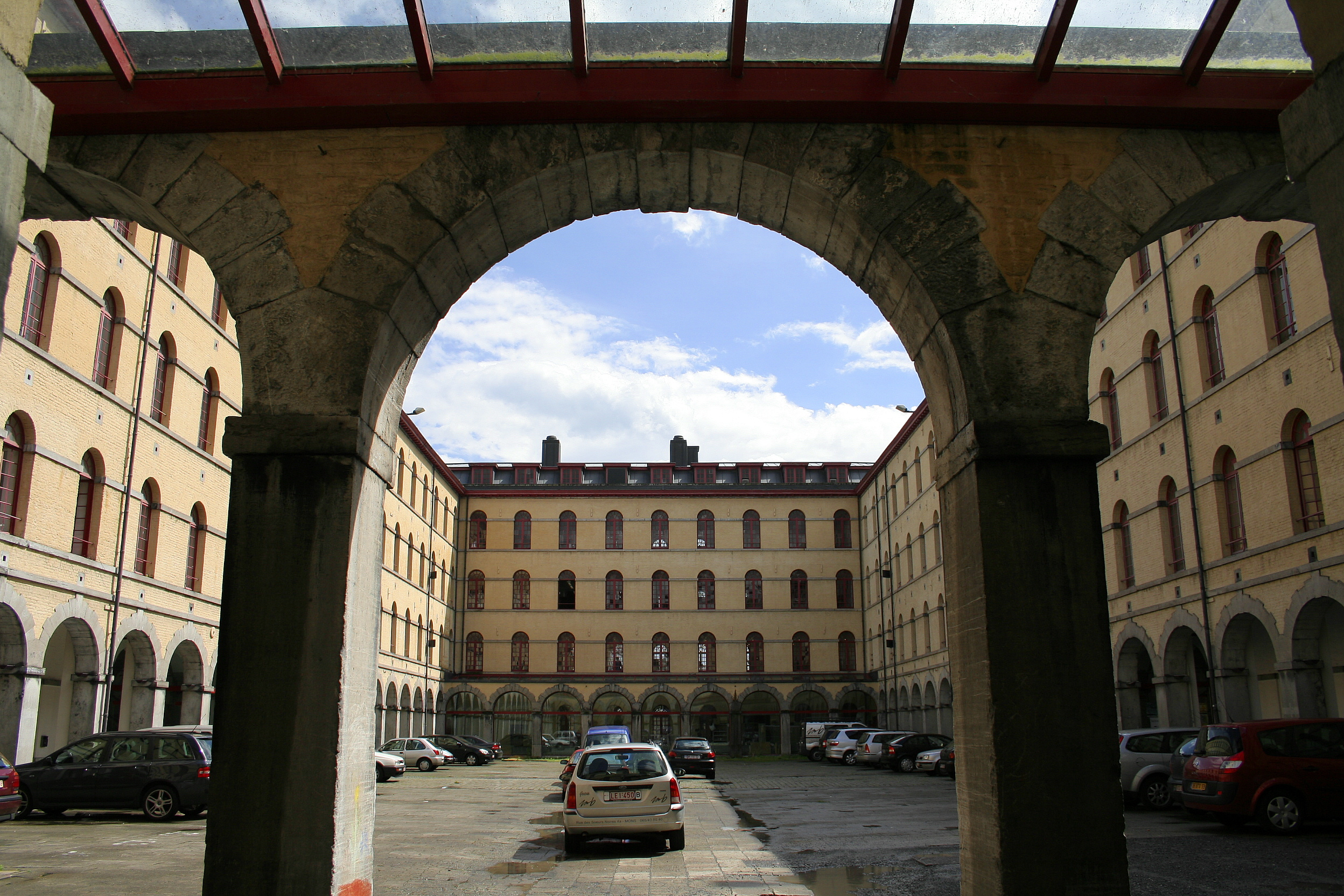 Mons (Belgium), rue des Sœurs-Noires. – The former « Guillaume » or « Major Sabbe » barracks and presently the Mons Culture Center, also called « Carré des Arts » (1824-1827).